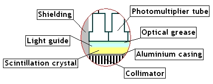 Created by me (Fizzy) using windows paint. This is a detail of part of a diagrammatic cross section through the head of a gamma camera.